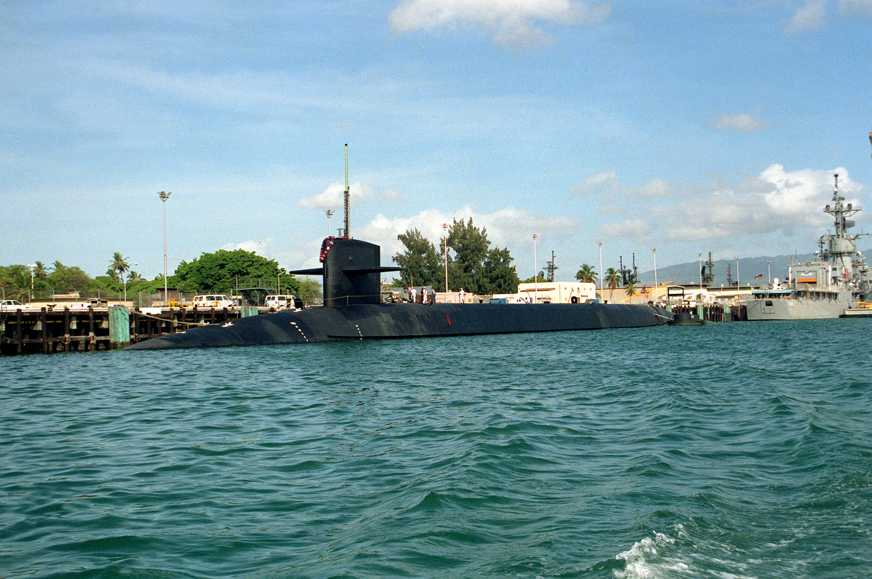 A port bow view of the nuclear-powered strategic missile submarine USS HENRY M. JACKSON (SSBN-730) moored to a pier at Pearl Harbor.